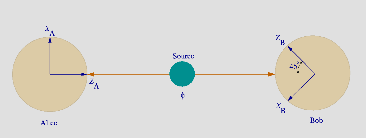 EPR illustration from Xfig sources